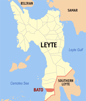 Map of Leyte showing the location of Bato